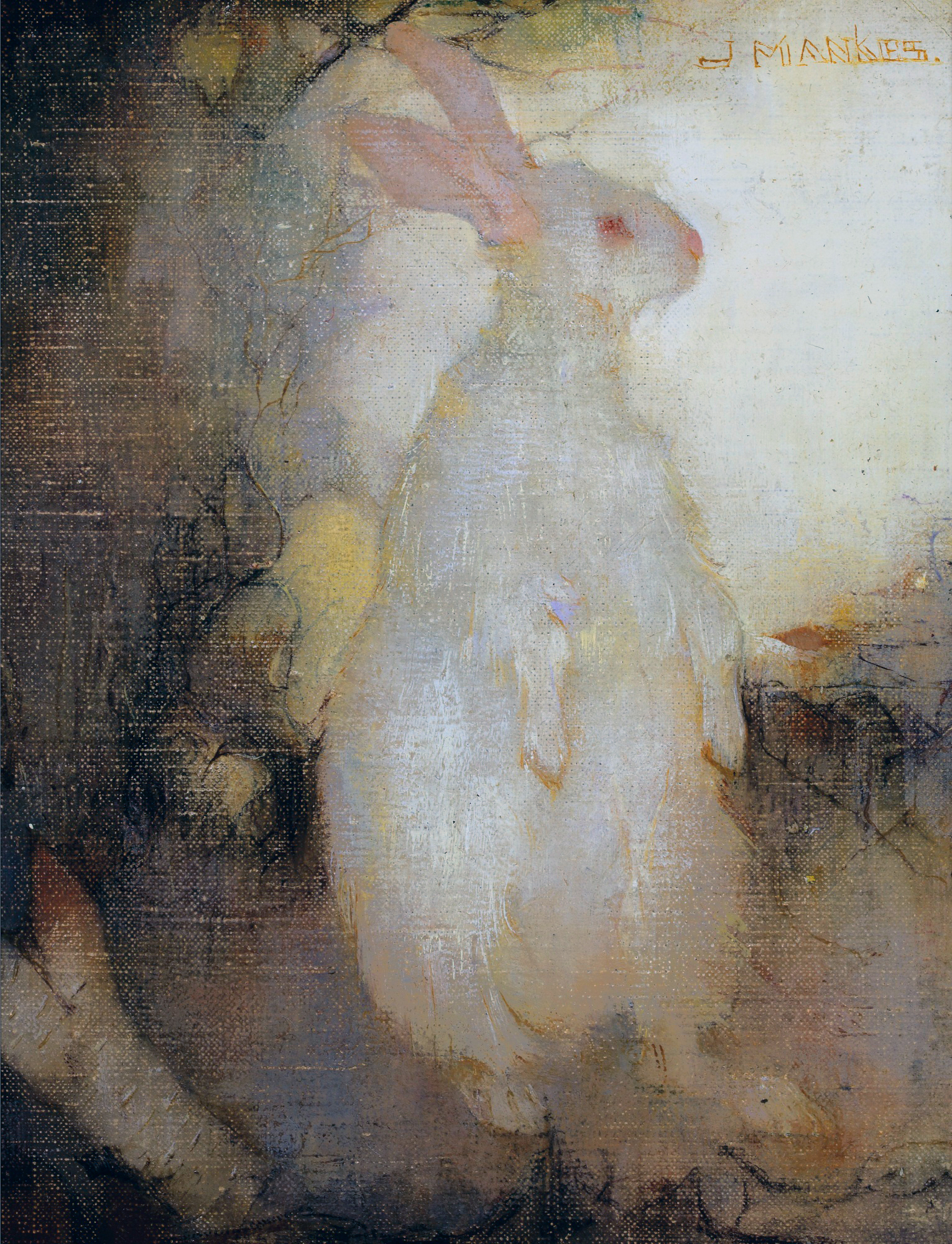 White rabbit, standing oil on canvas, marouflage on panel 17 x 13 cm signed t.r.: J Mankes 1910